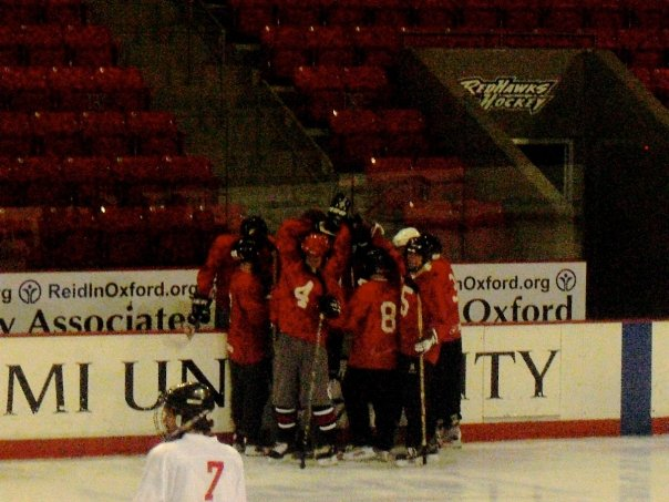 Mr Bo Dangles